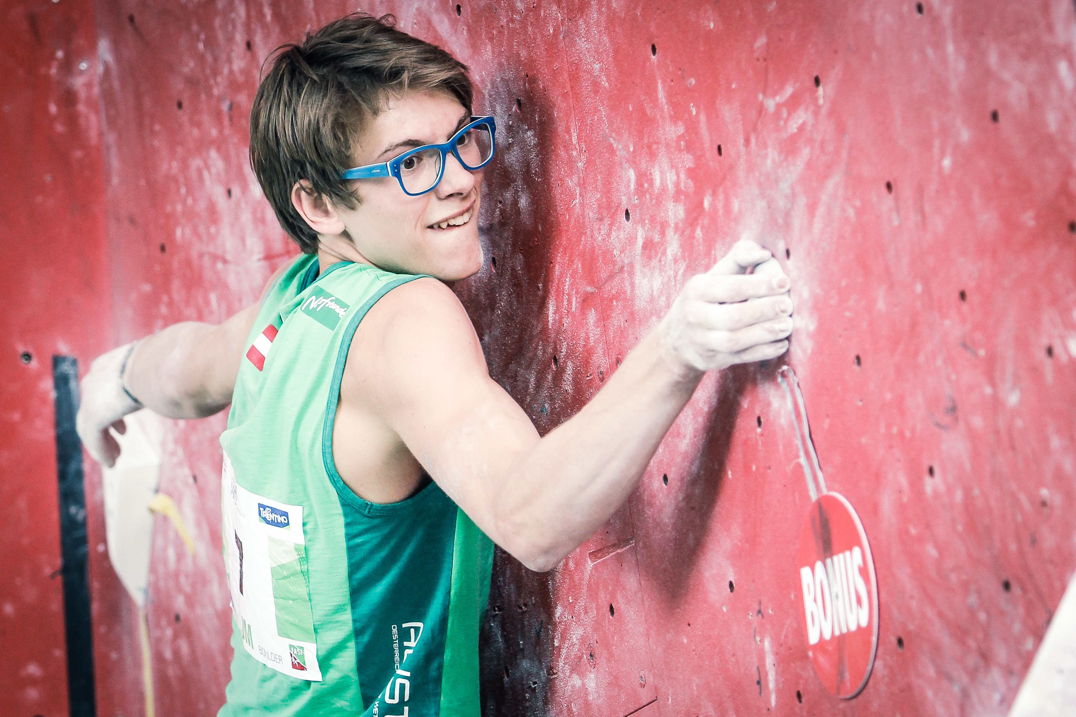 Georg Parma at the WYCH, Bouldering, Arco (IT) 2015